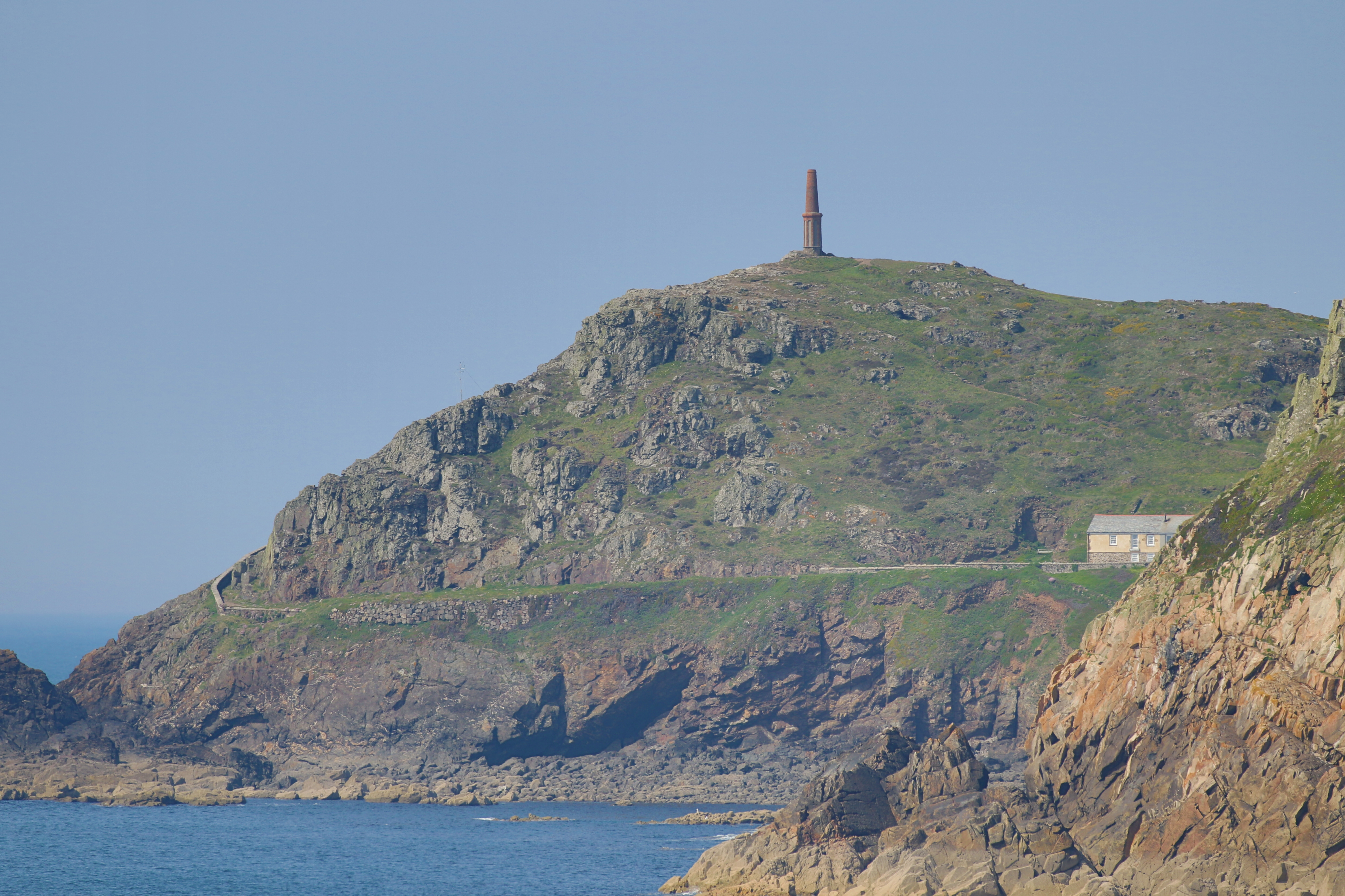 Cape Cornwall This photo was taken by Tom Corser and is © Tom Corser 2020. This photo may be reproduced at up to 1024 x 768 pixels resolution under the terms of the Creative Commons Attribution-ShareAlike 3.0 Unported Licence [1] (unless otherwise stated). Please credit this photo Tom Corser If using this photo, make sure you properly credit and specify the licence that this photo is licensed under. (E.g. "Photo by Tom Corser Licensed under Creative Commons Attribution-ShareAlike 3.0 Unported Licence: If you would like to use this photo under a different license, or at a higher resolution please contact me via or . Attribution: Tom Corser